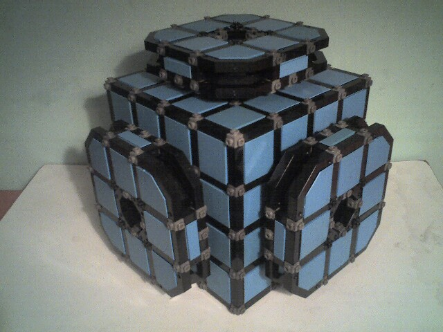 A Construx Model of the Construx Blue Connector Piece. 21 times its original size. Made with the Black 'Alien Series' Beams & Blue Panels.